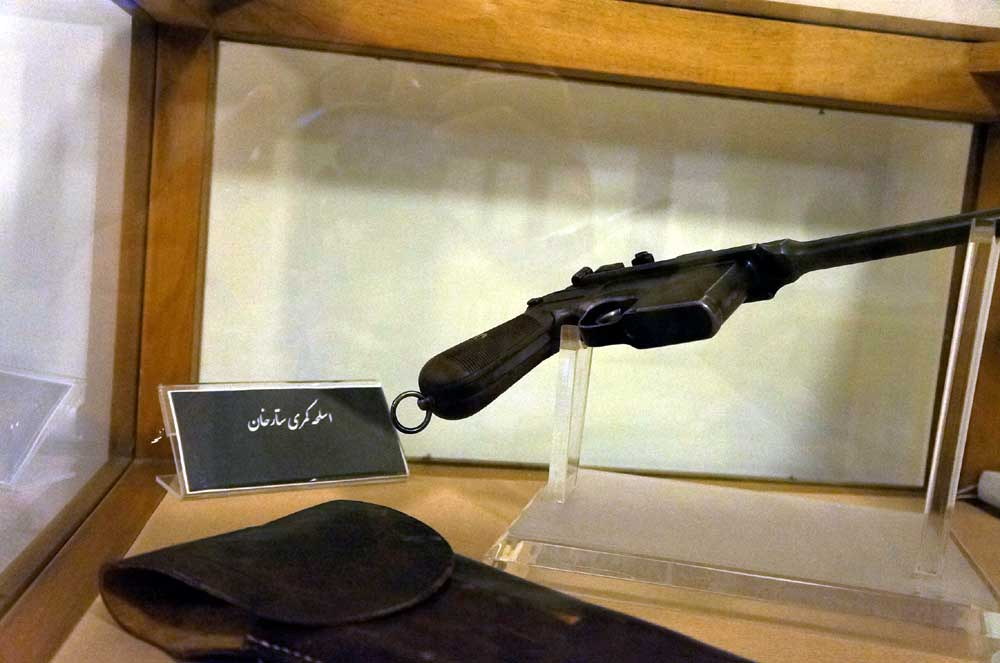 Personal pistol of Sattar Khan